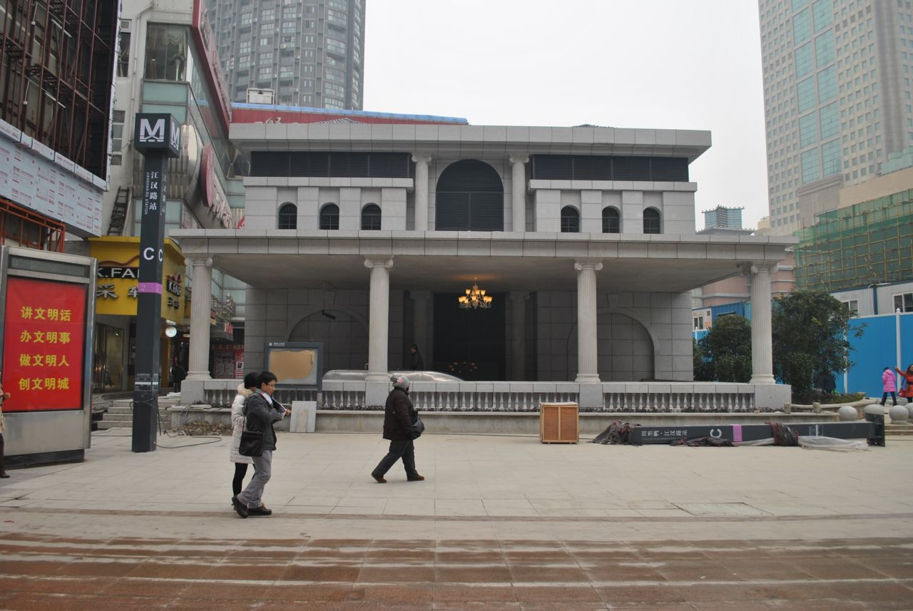 Jianghan Road Station